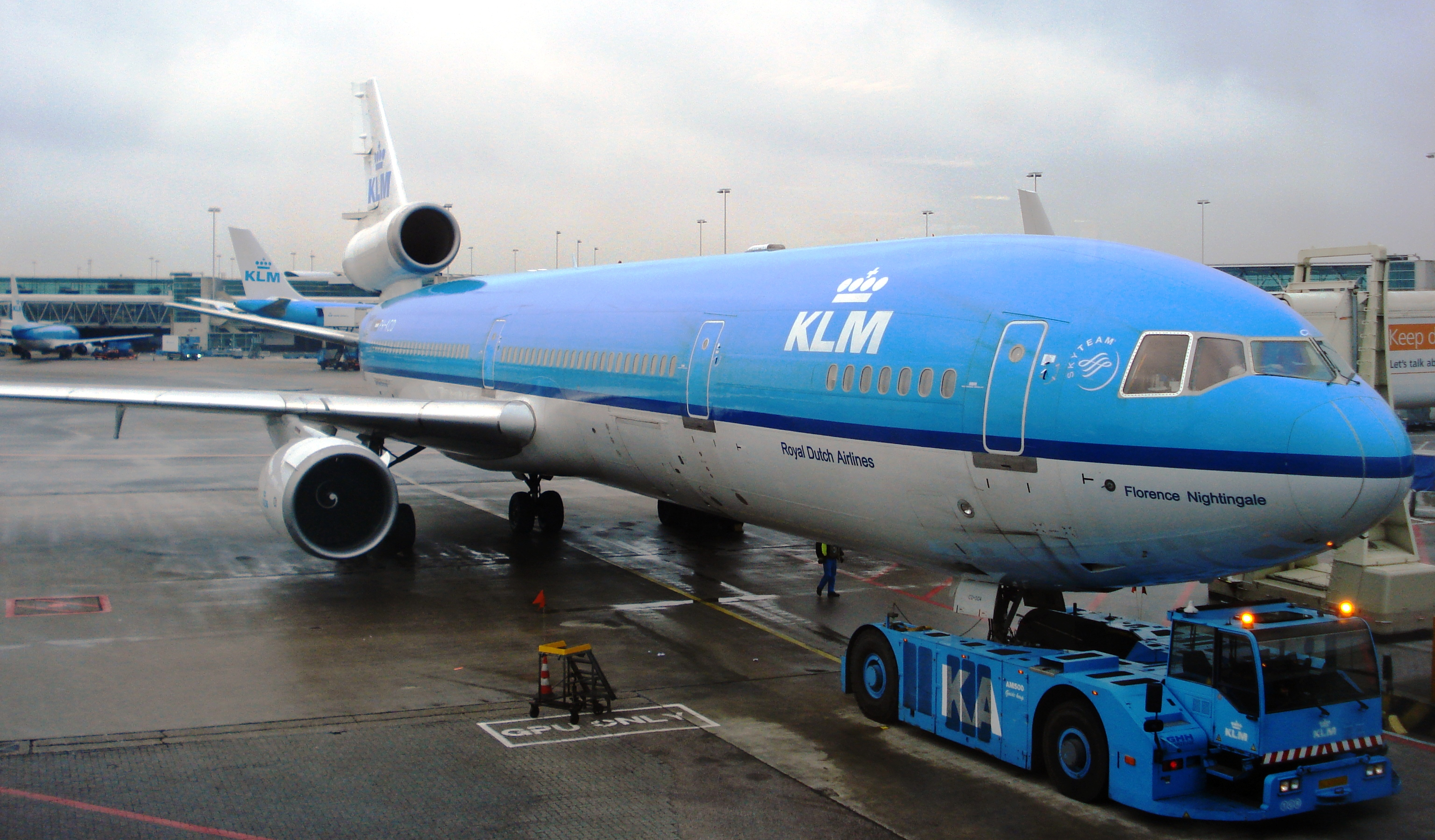 KLM MD-11 at Amsterdam